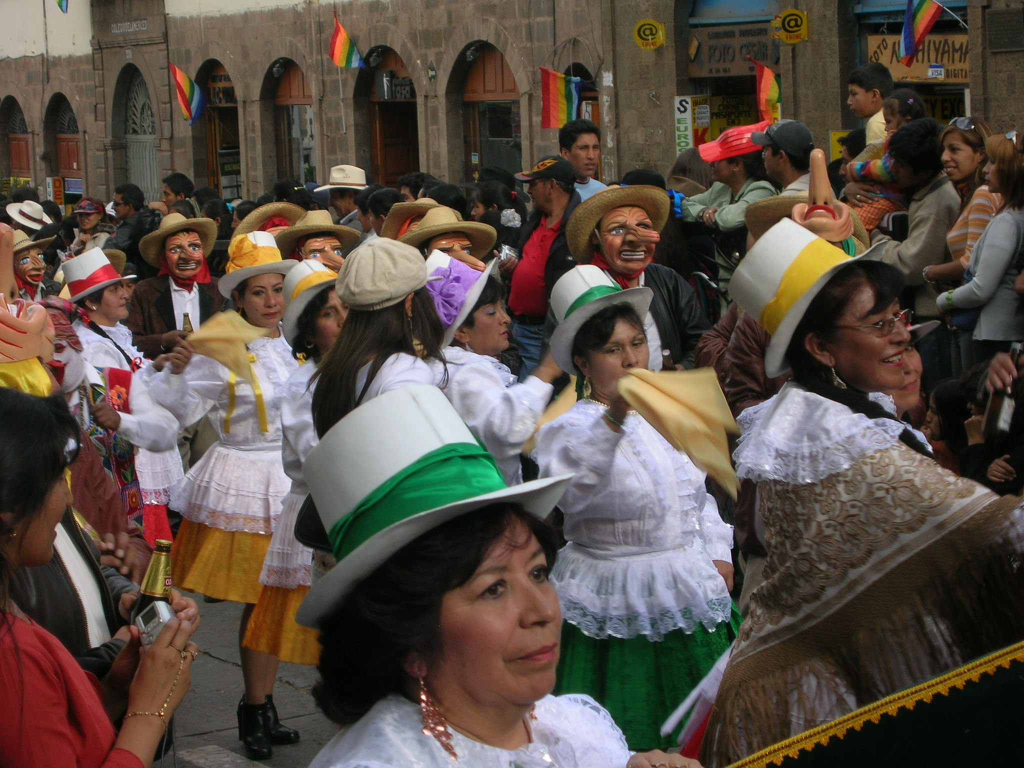 Inti Raymi festival at Cuzco, Peru.